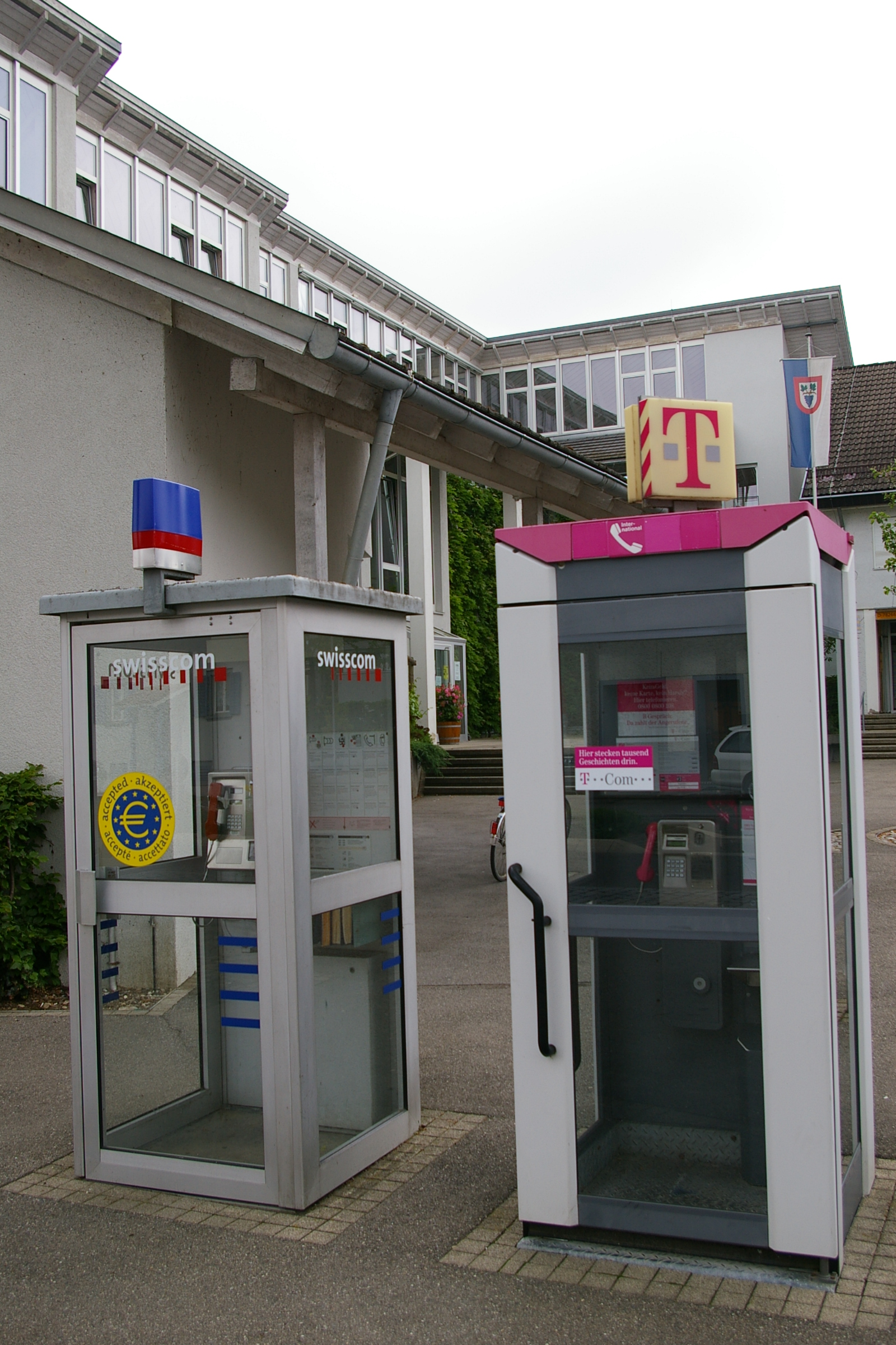 Swiss and German Telephone Booth at Büsingen am Hochrhein